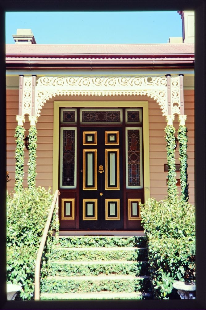 Ascot House, front door